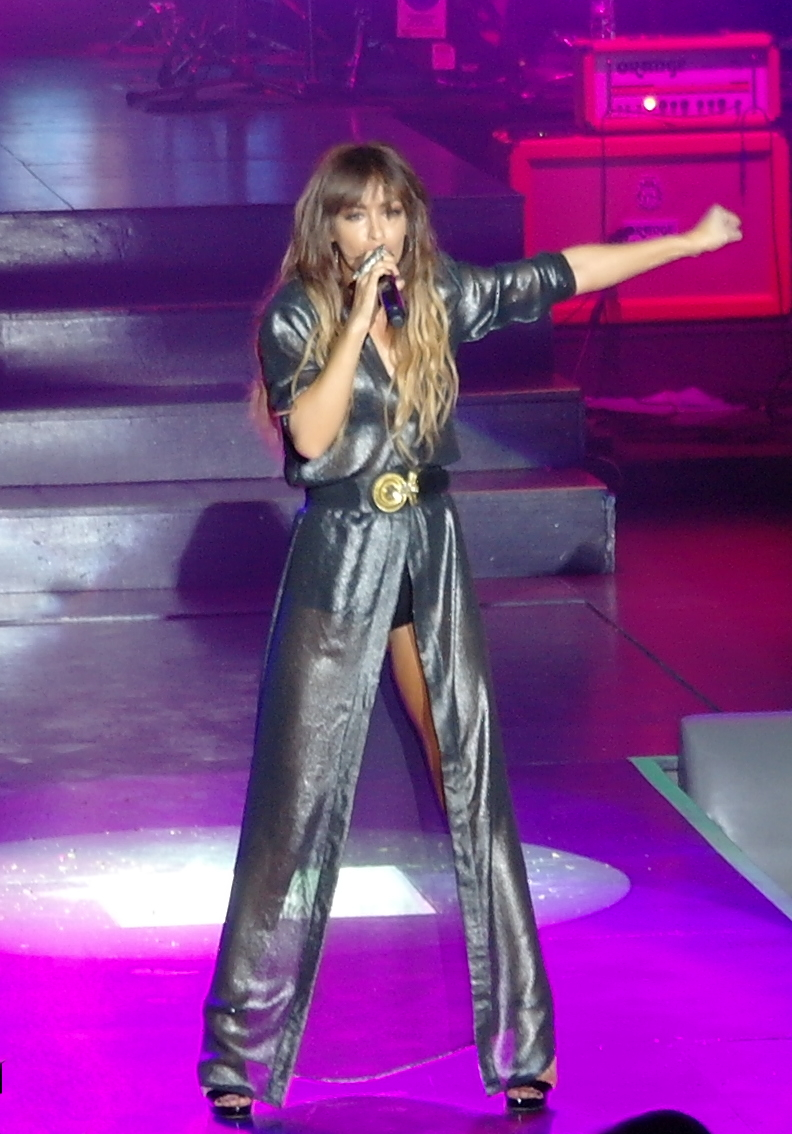 Eleni Foureira